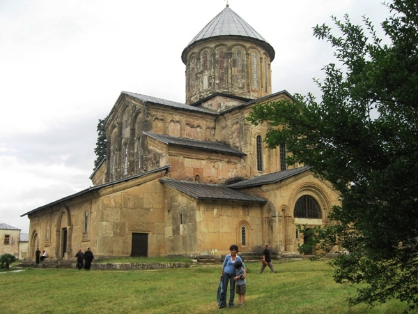 Gelati Monastery